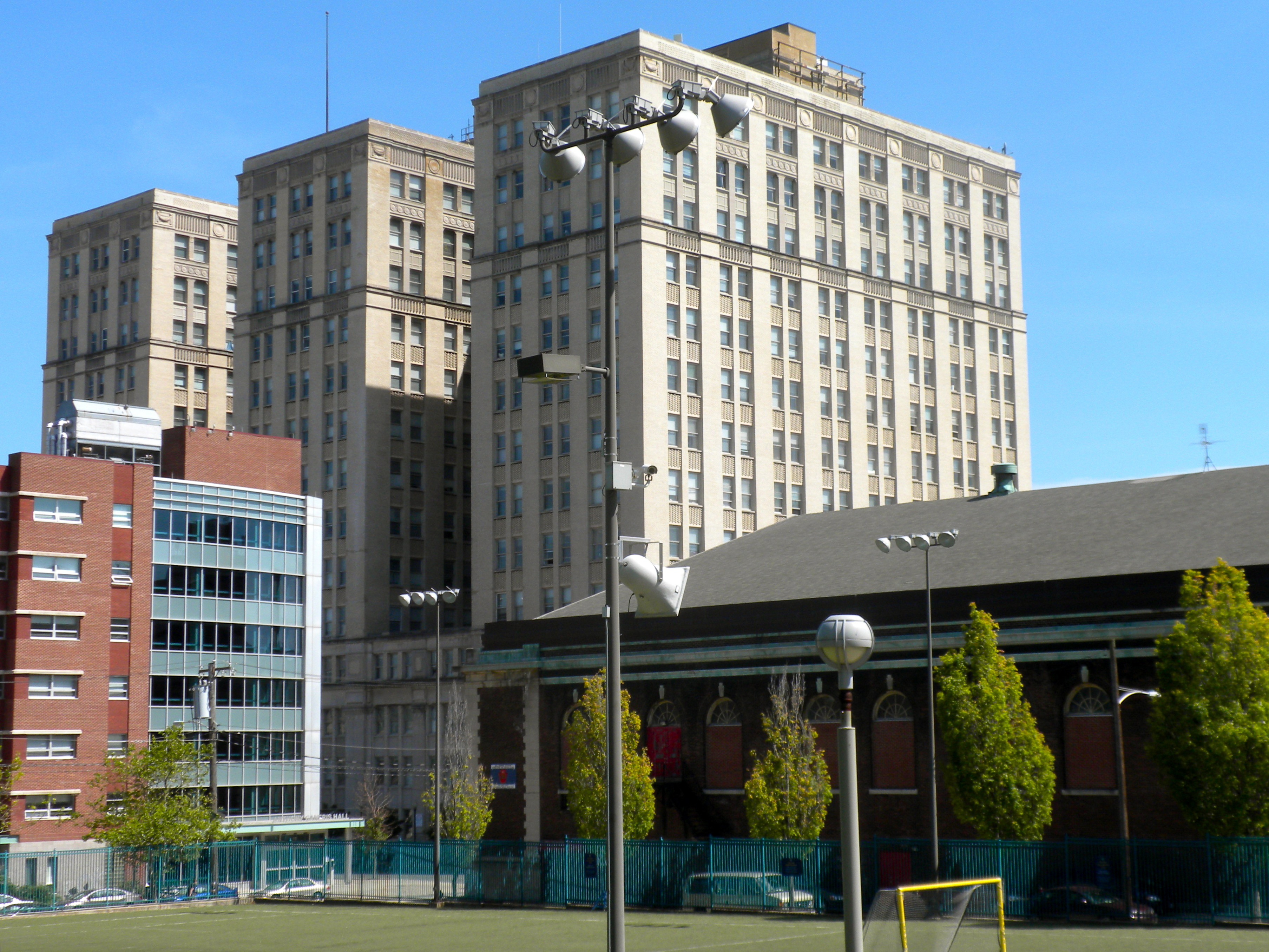 Pennsylvania Railroad Office Building on the NRHP since February 27, 2003. At 3175 John F. Kennedy Blvd. University City neighborhood of Philadelphia near 30th Street Station and Drexel University. This is taken from the back, the low building on the right is the 32nd and Lancaster Armory, also on the NRHP. Now a Computer Science building for Drexel U.